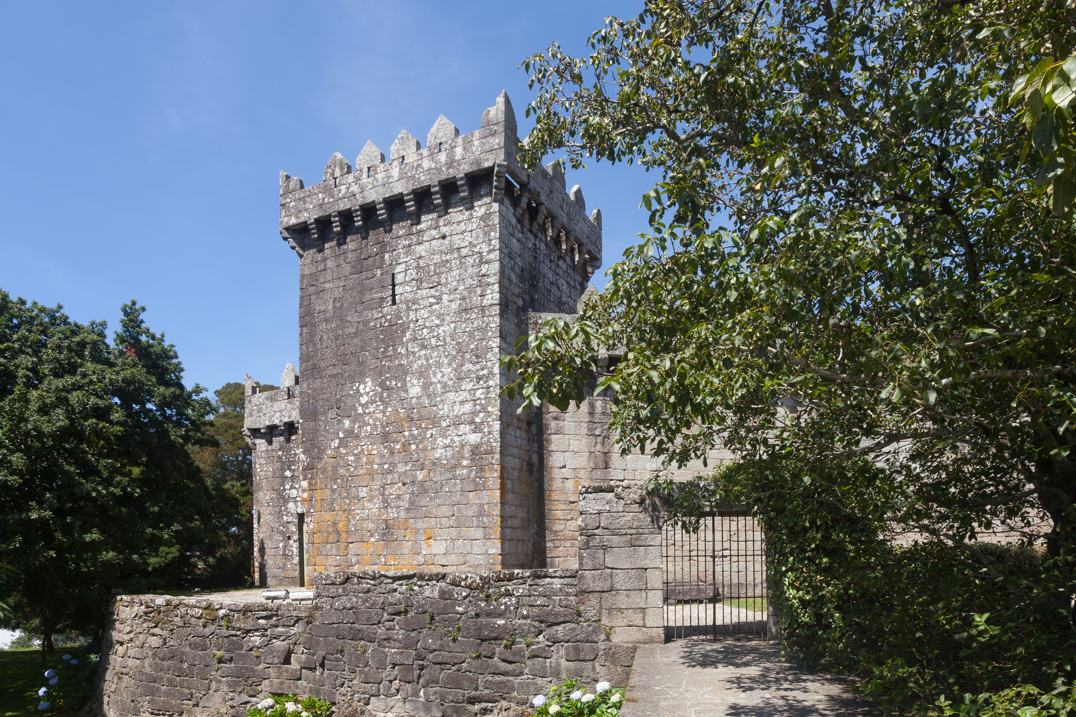 Castle of Vimianzo, Galicia (Spain).